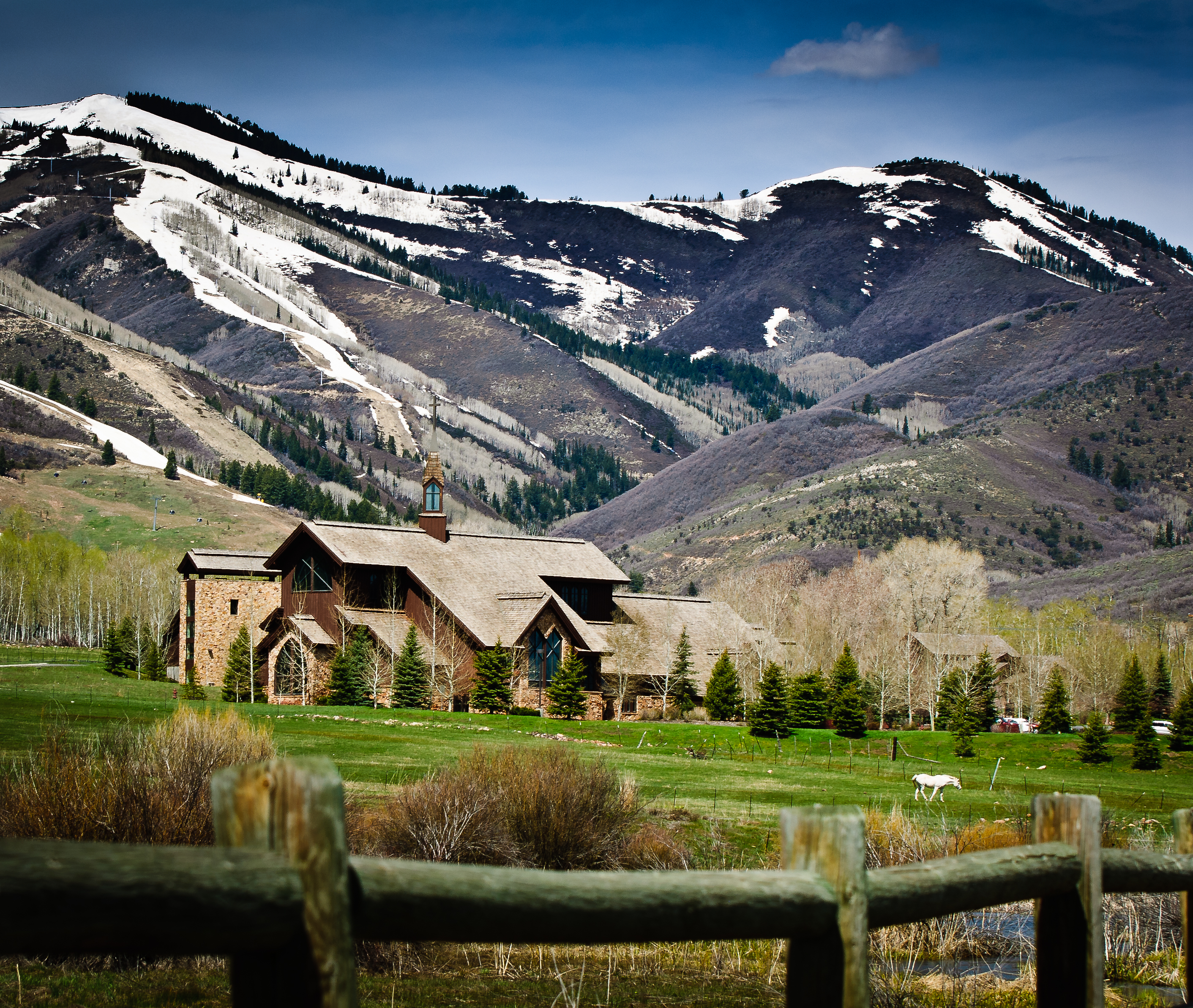 Wealth and the Bucolic (the Temple Har Shalom in Snyderville, Utah), May 2010